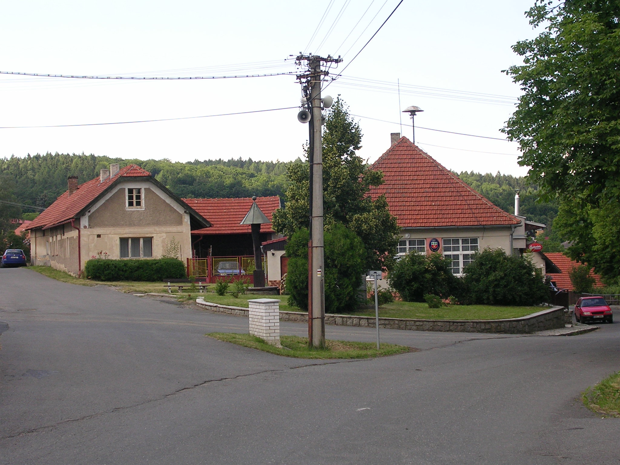 Černé Voděrady, Central Bohemian Region, the Czech Republic.